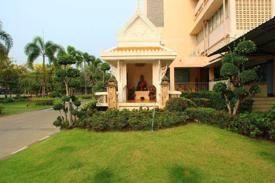 Rongrian Sai Phanya Rangsit, Amphoe Thanyaburi, Pathum Thani Province